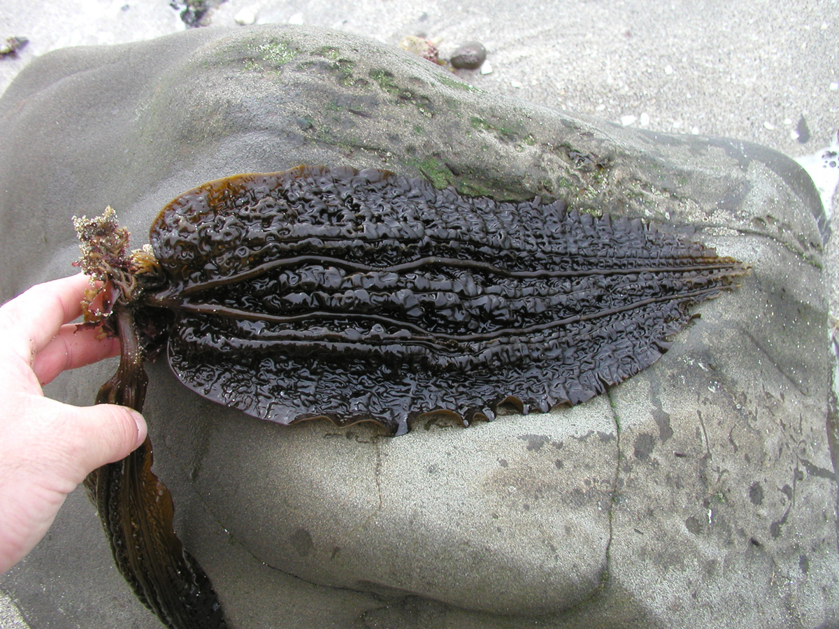 Five-ribbed kelp (Costaria costata). From Pillar Point, Half Moon Bay CA